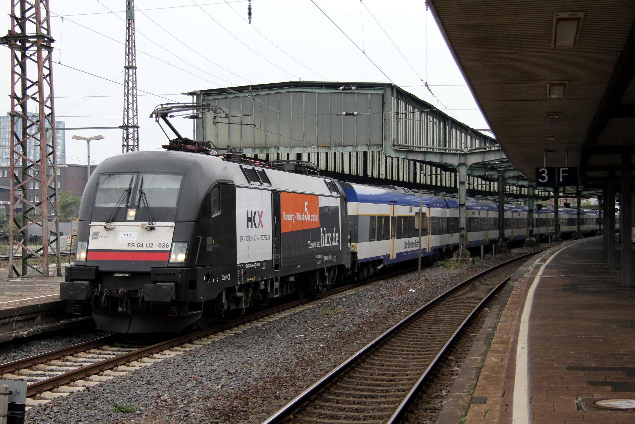 HKX ES 64 U2-036 (MRCE Dispolok) with the HKX 1802 Hamburg-Altona - Köln Hbf.